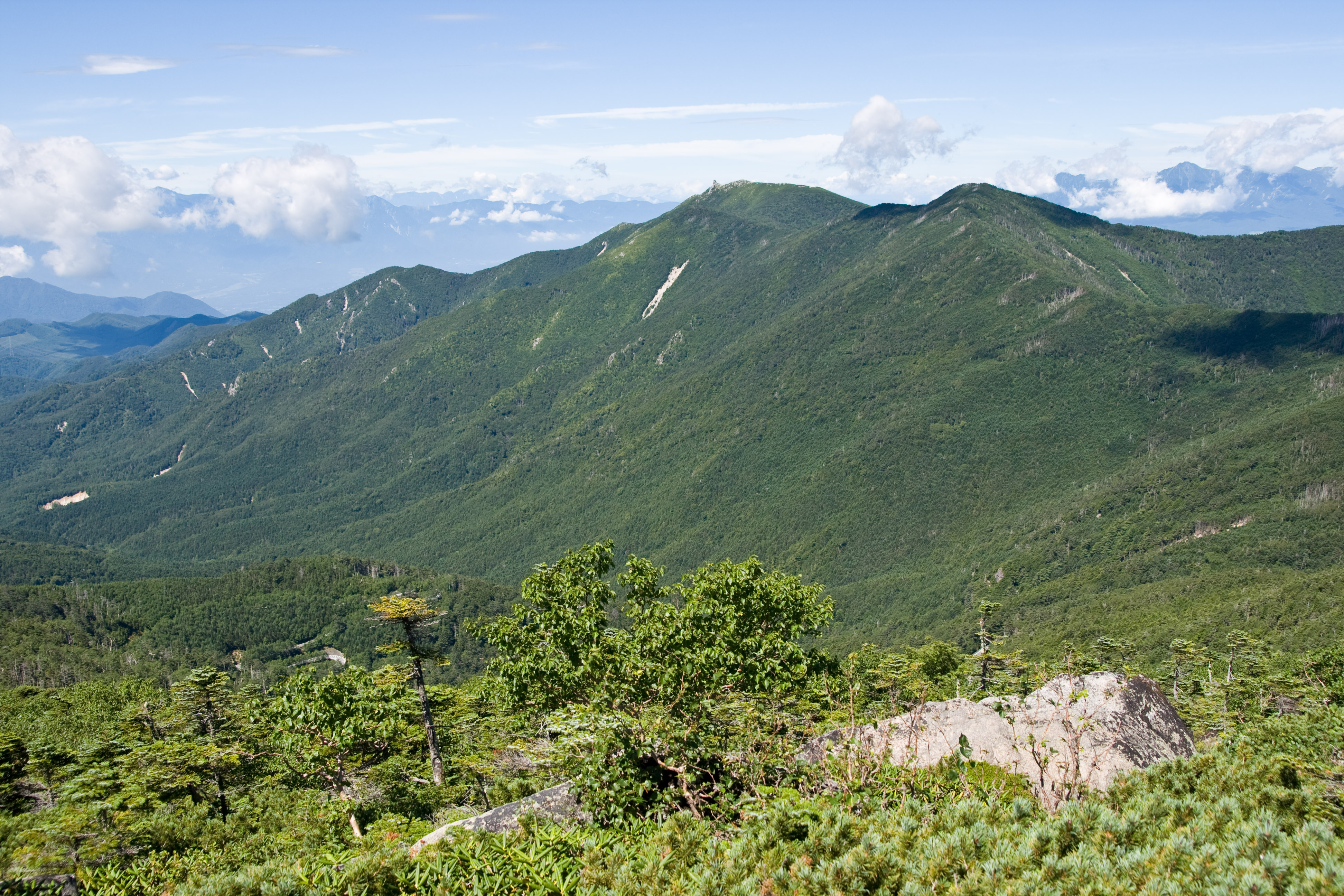 Mt.Kinpu as seen from Mt.Kitaokusenjodake, Yamanashi Prefecture, Honshu, Japan.